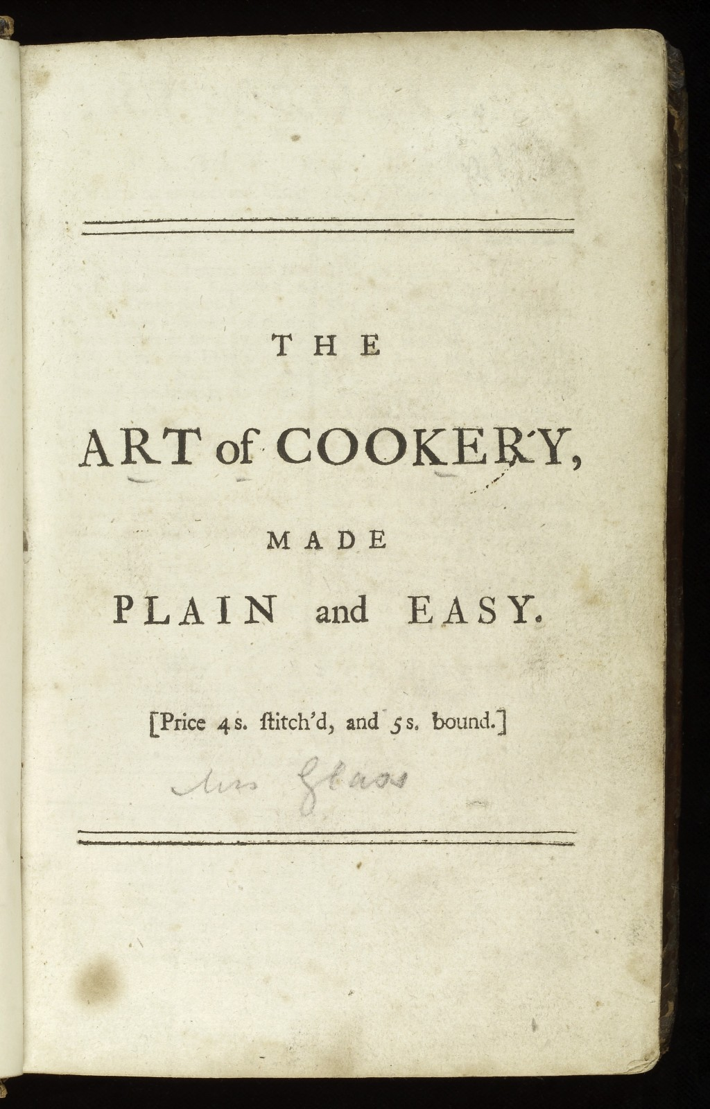 Page from 'The Art of Cookery made Plain and Easy'. Rare Books Keywords: Cookery